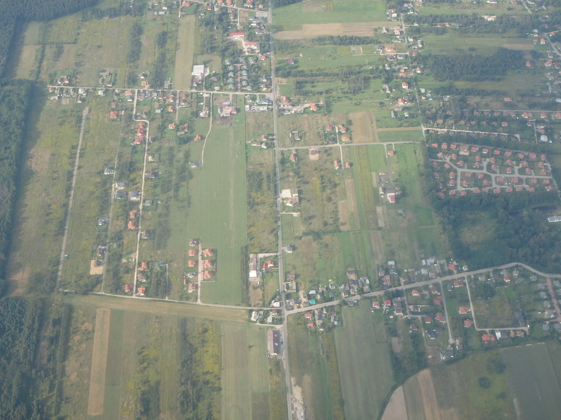 aerial photo of Ustanów (coordinates refer to road crossing in the bottom)